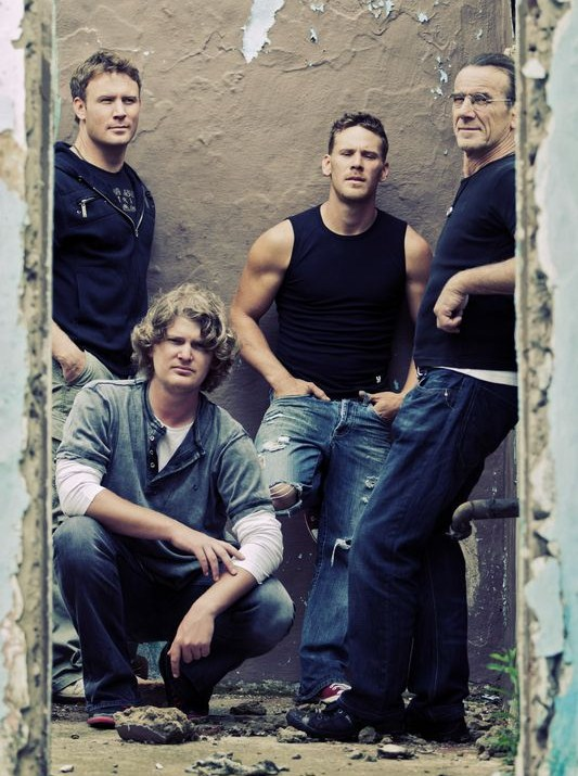 Jason Harman and his band